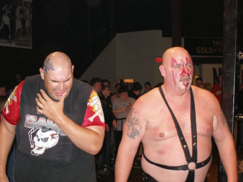 One Man Gang (left) and Barry Darsow (right) at Chikara's King of Trios tournament in 2008.